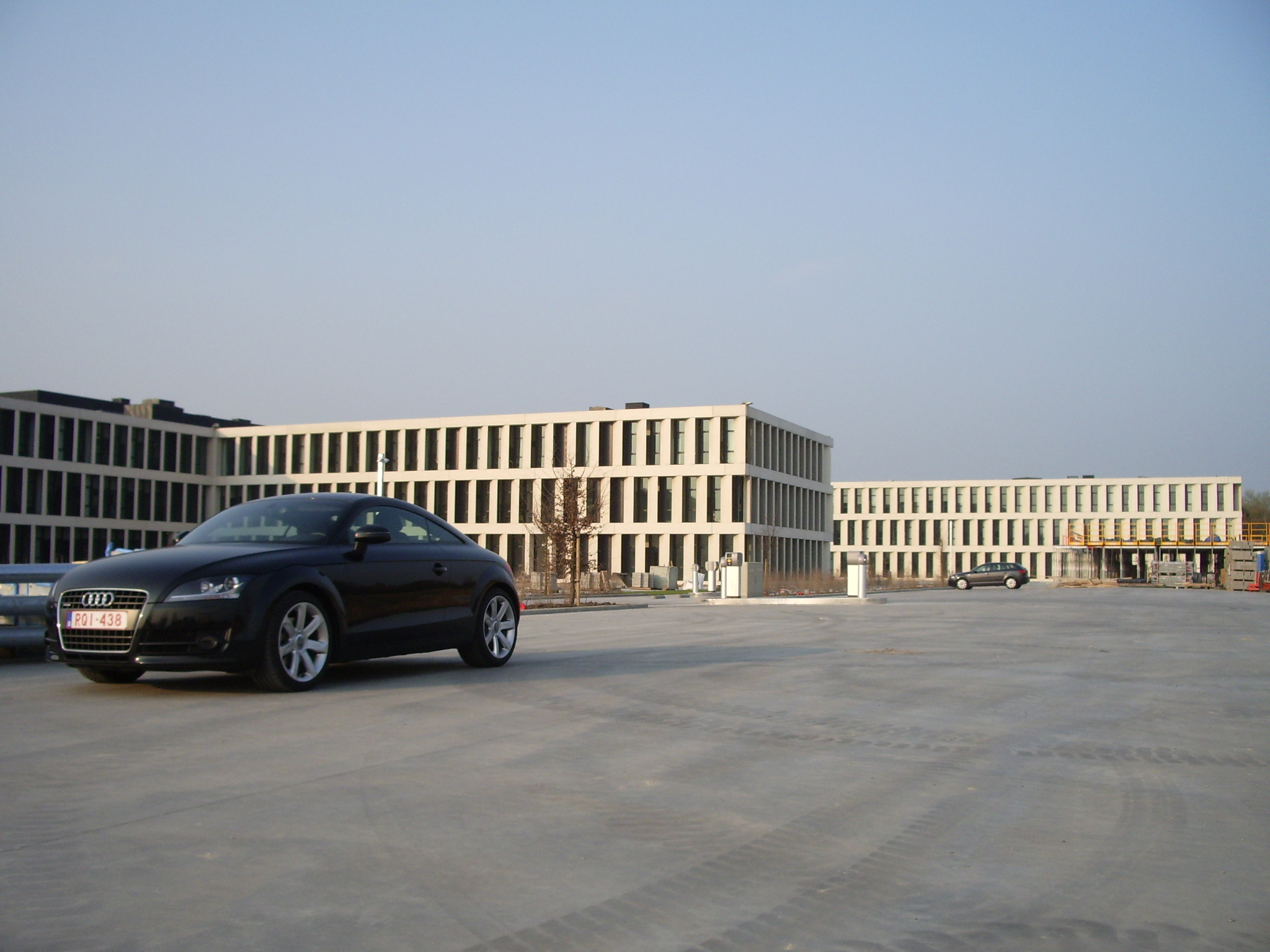 AZ Groeninge Campus Kennedylaan